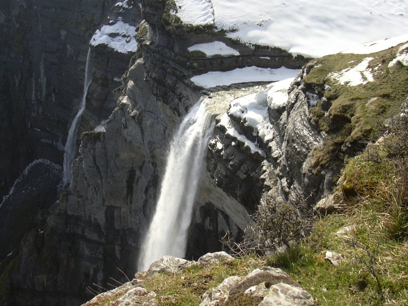 River Nervión waterfall in winter, Spain